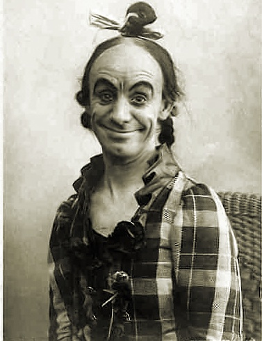 Dan Leno photographed circa 1901 by unknown photographer. Printed in and scanned from The Daily Mirror. November 1904, p. 1 Leno is shown in costume as the character Sister Anne from the pantomime Bluebeard, produced at the Theatre Royal, Drury Lane, which opened in London at Christmas 1901. The photo was published after Leno's death in 1904.